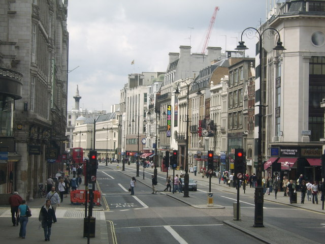 Strand, looking west to Nelson's Column